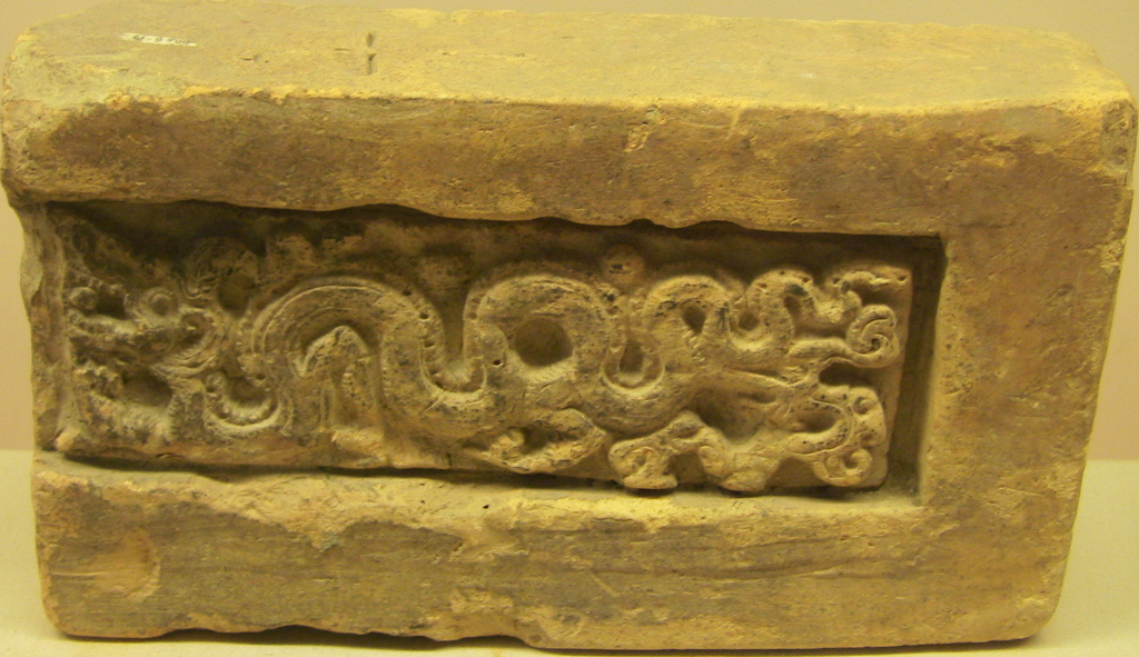 A dragon figure decorated terra-cotta brick in Hồ Dynasty (late 15th century), VietnamTiếng Việt: Gạch có trang trí hình rồng thời nhà Hồ